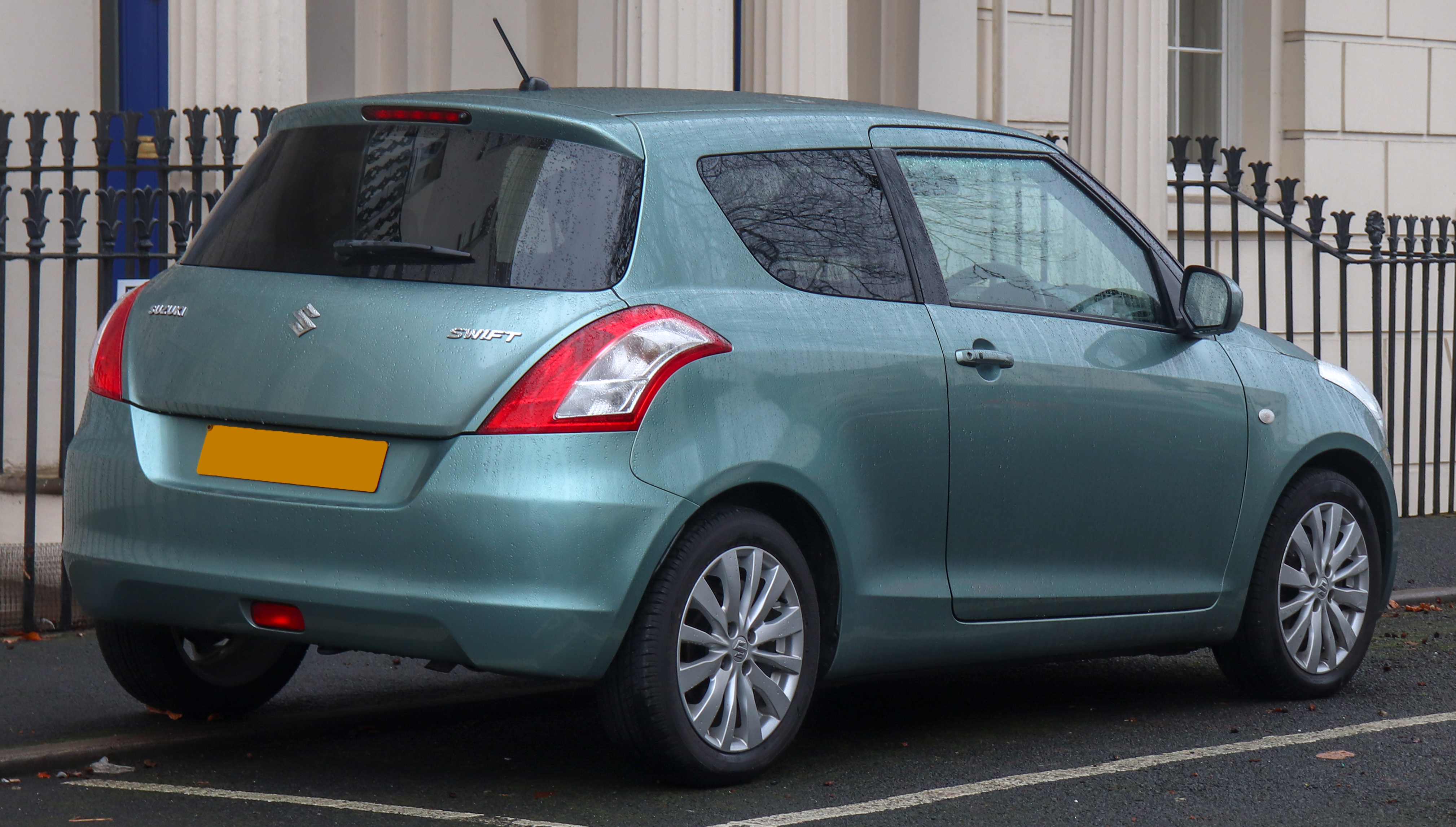 2012 Suzuki Swift SZ4 1.2 Rear Taken in Leamington Spa